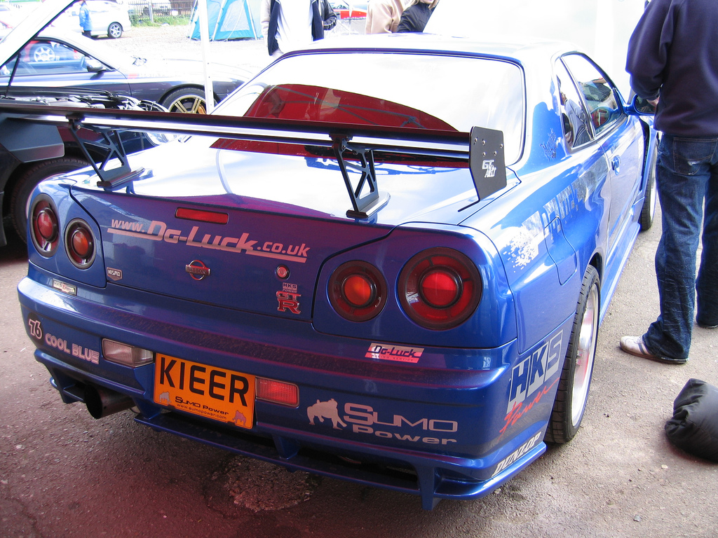 Ace car. This has the nice engine bay too.